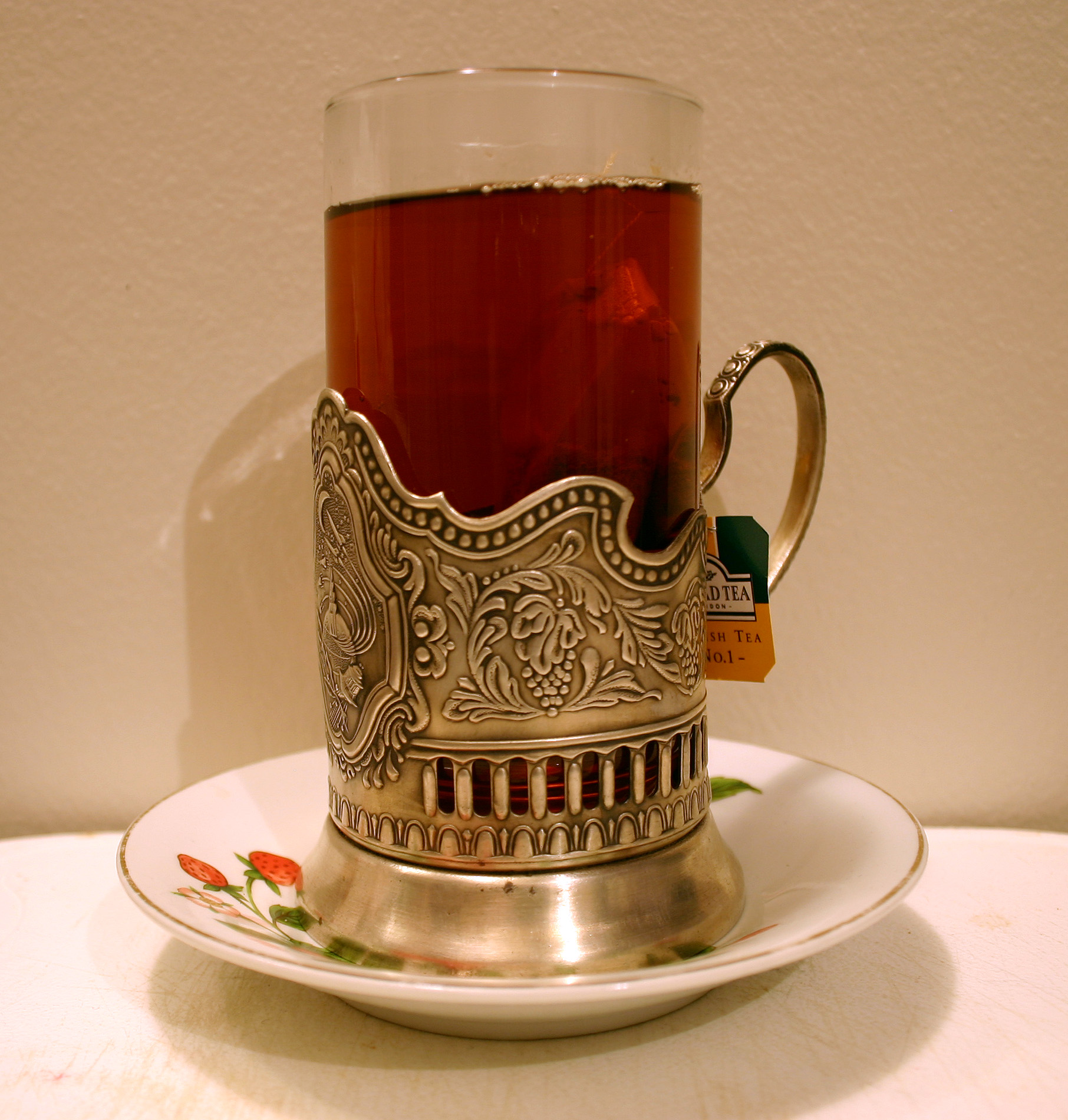 Glass of tea in a vintage Soviet podstakannik. Close up reveals theme of space exploration - recurrent theme in Soviet patriotism and propaganda.